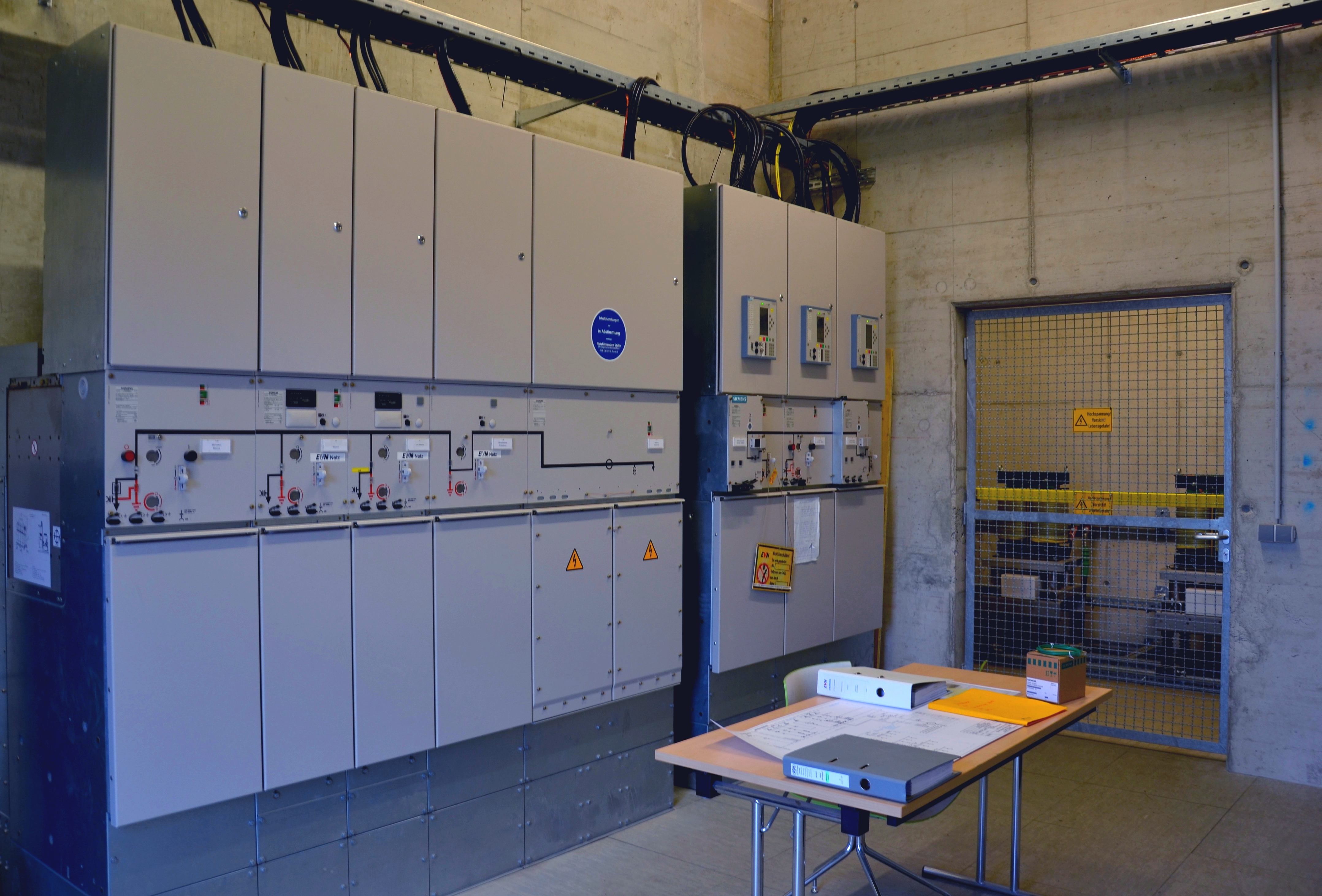 medium voltage Switchgear of the Biomass power Plant Steyr